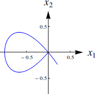 A map which is not a homeomorphism onto its image: g : (−1.1, 1) → R2 with g(t) = (t2 − 1, t3 − t)